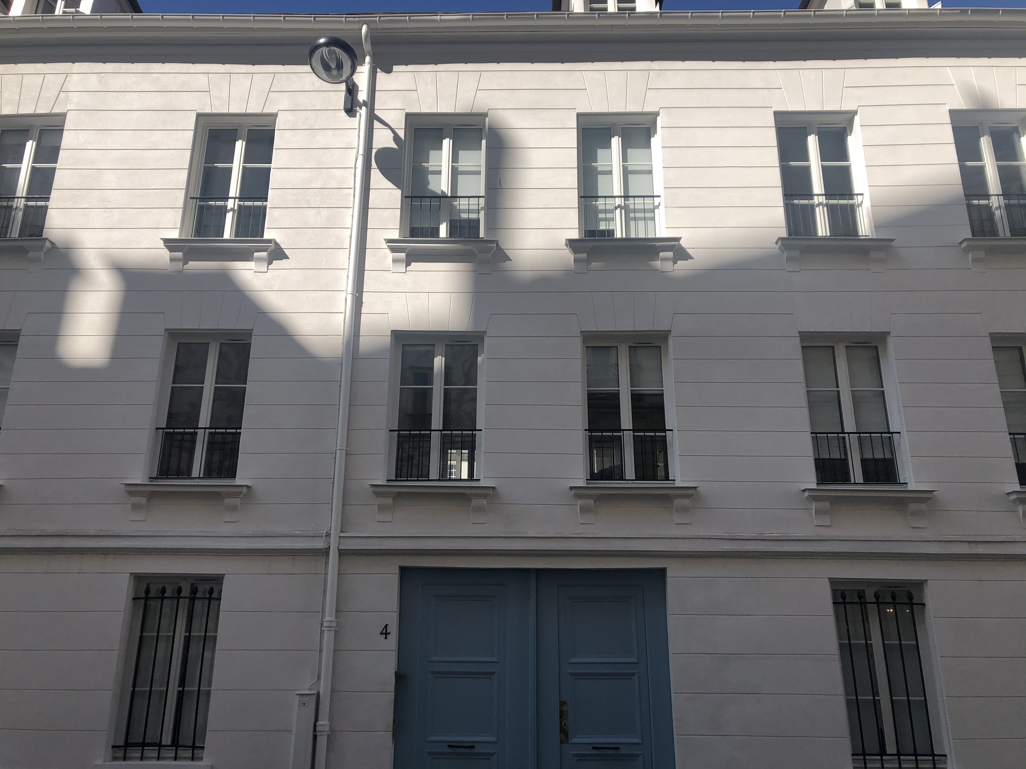 Columbia University Global Center Paris located 4 rue de Chevreuse 75006 Paris